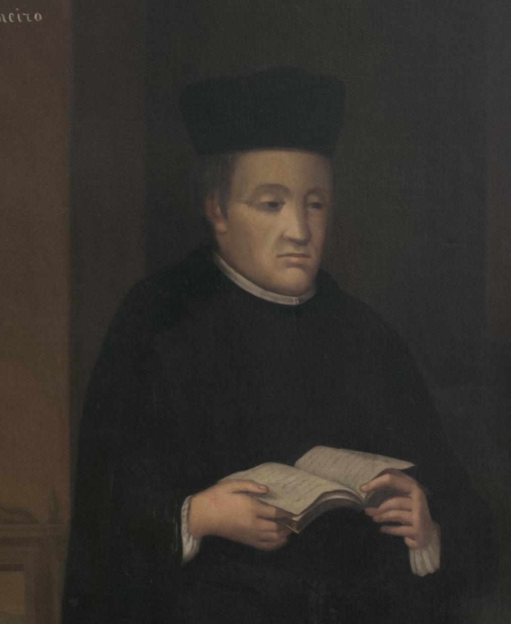 Painting of Lopo de Almeida, by Joaquim V. Ribeiro